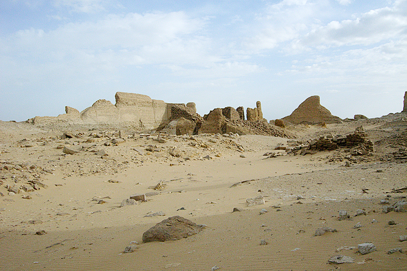 View to the temples' precinct, Dimai, el-Fayyum, Libyan desert, Egypt